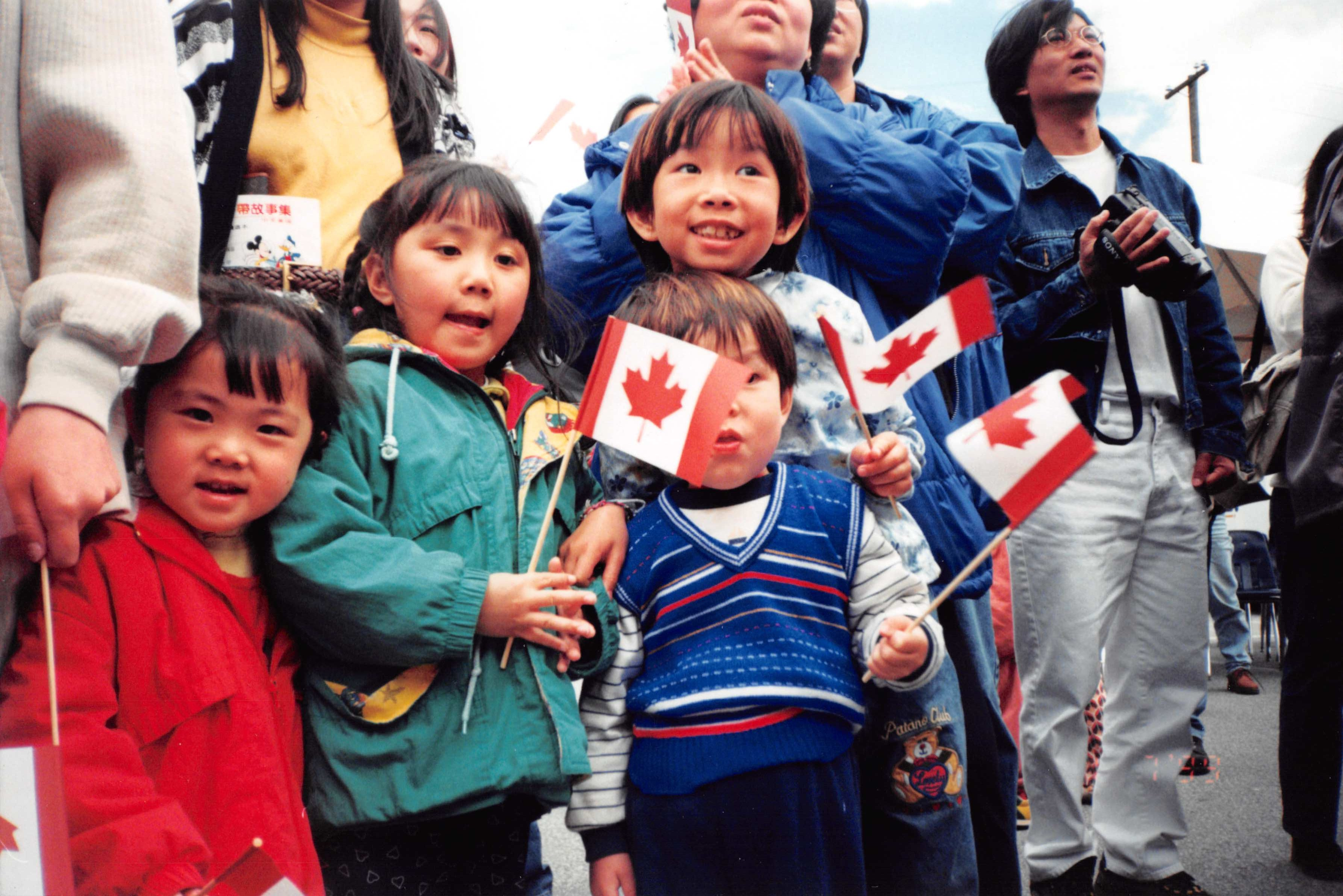 Chinese Canadian Children Celebrating Canada Day in 1999